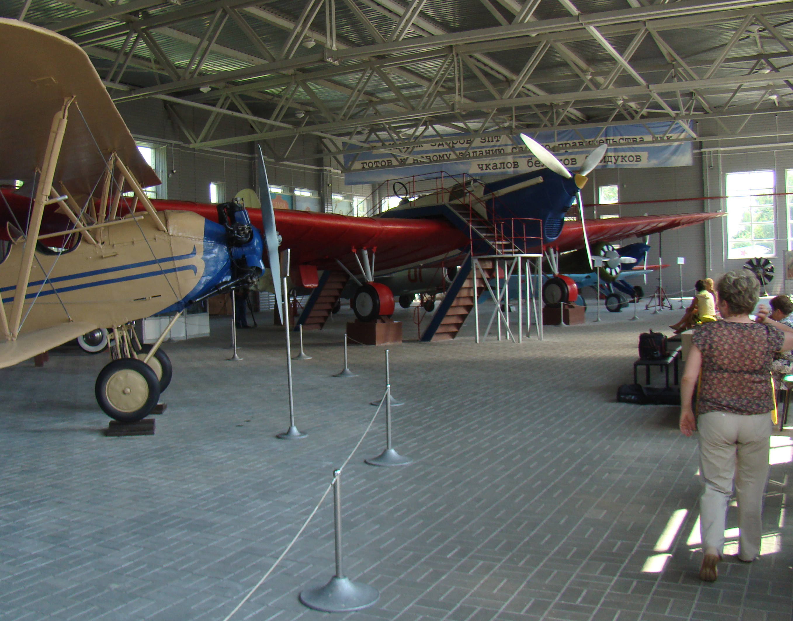 Tupolev ANT-25 in Chkalov museum, Chkalovsk, Nizhny Novgorod Oblast, Russia